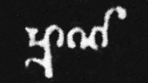 Rishtal inscription line 12 Huunnaa